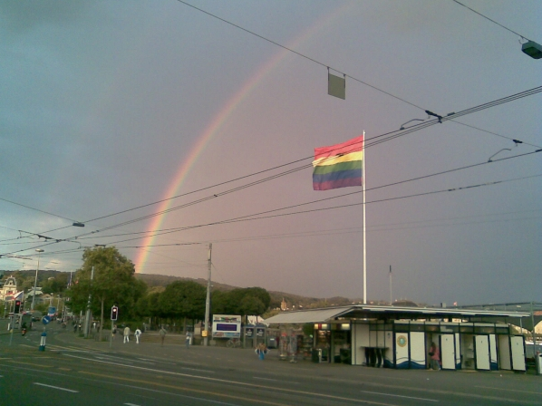 Rainbowflag with rainbow in Zurich (Buerkliplatz), 2009